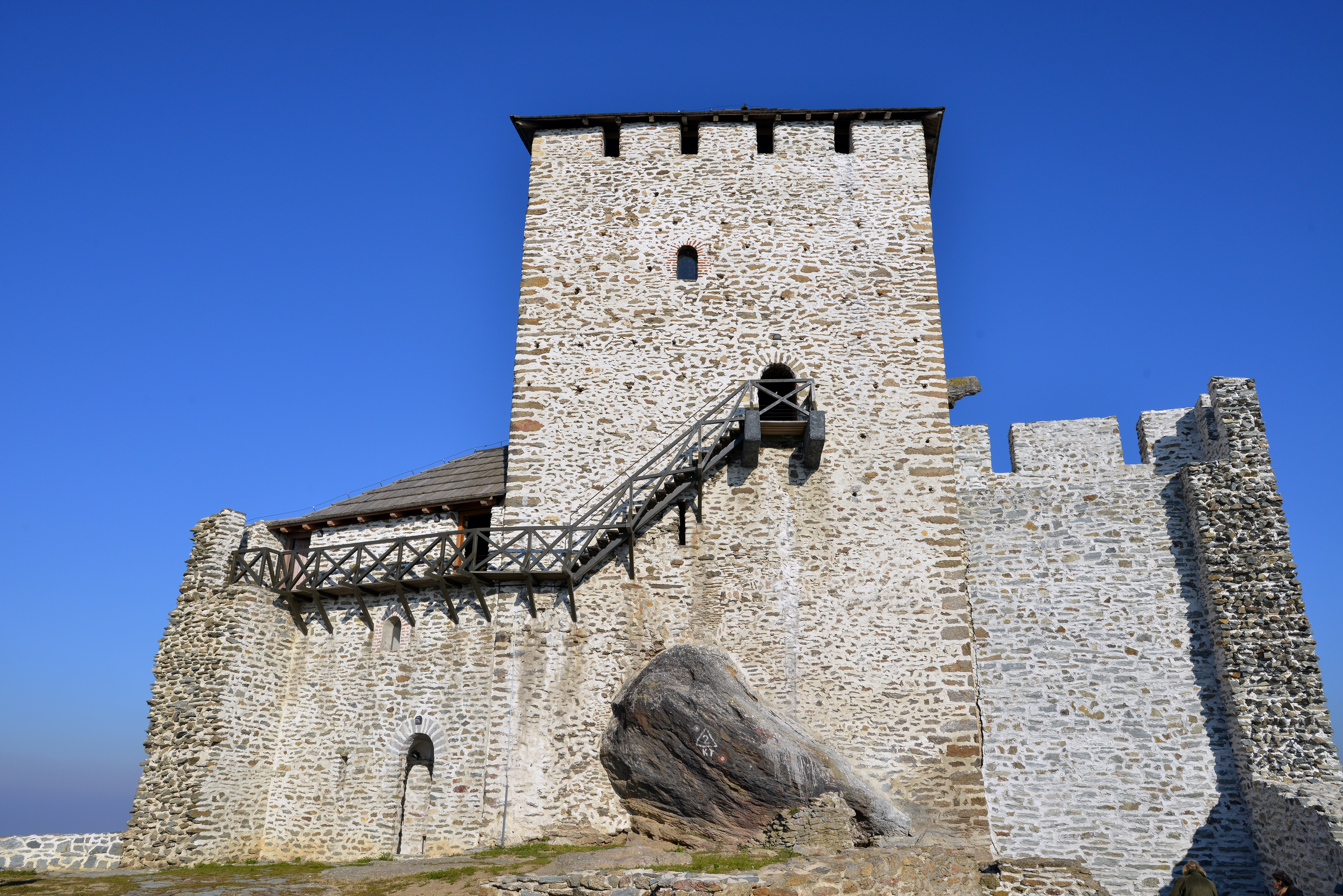 Donžon tower in Vršac Castle